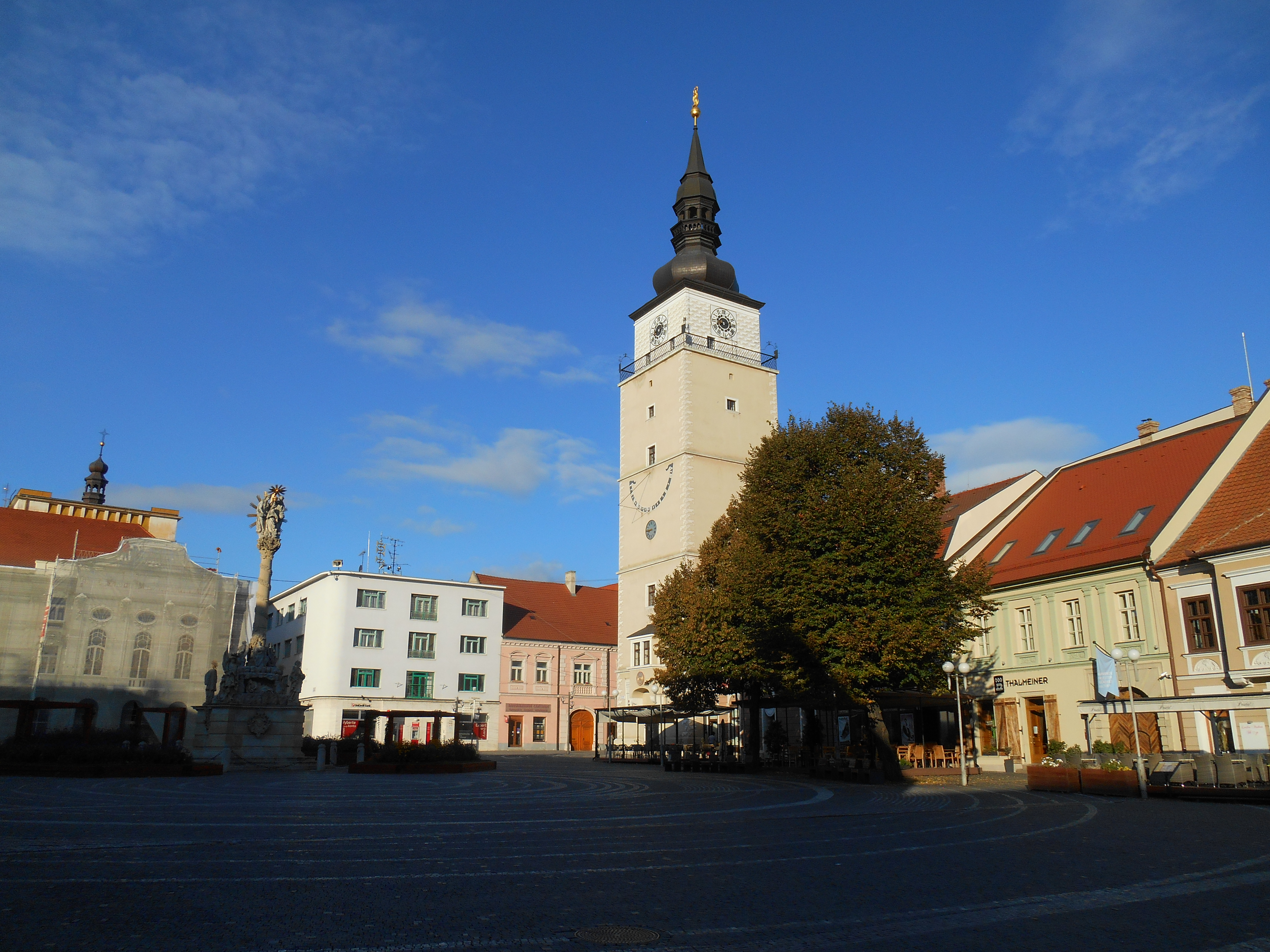 Trnava Slovakia - Square of Holy Trinity and a Town Tower